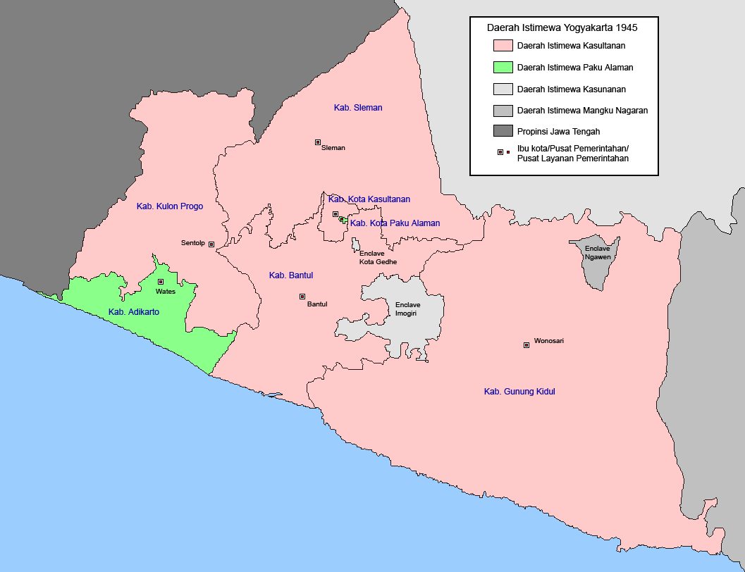 Map of the Sultanate of Yogyakarta in 1945